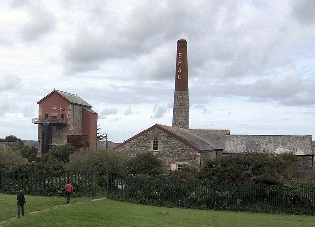 Pumping Engine House and stack on Taylor's Shaft at East Pool mine, near Redruth, Cornwall, England Object location50° 13′ 51.87″ N, 5° 15′ 45.24″ W